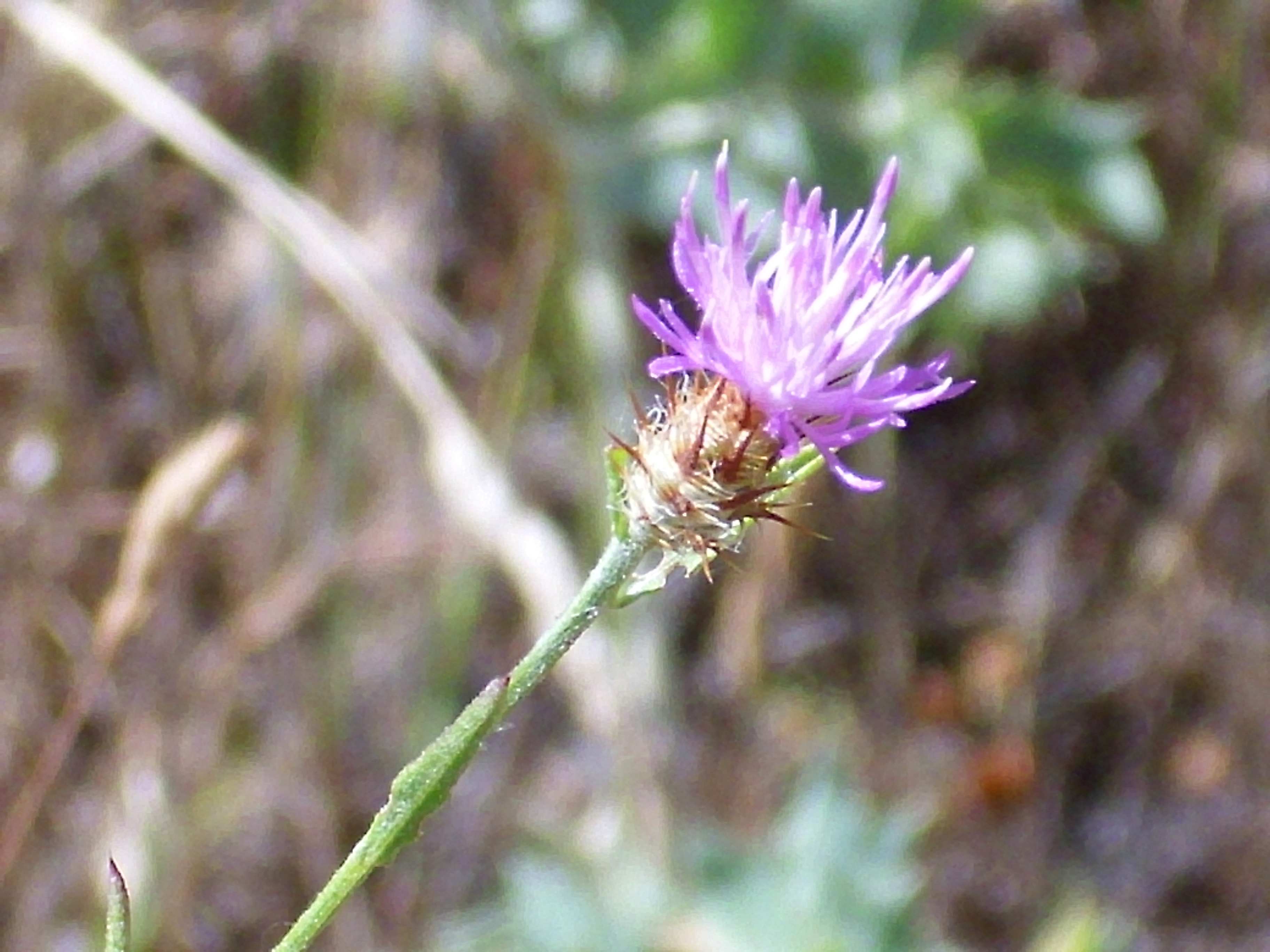 Centaurea citricolor inflorescence, Valle de Alcudia, Spain